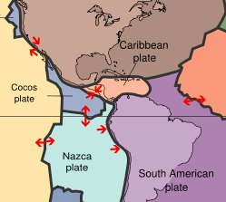 Image of a map describing the tectonic plates, section focused on Colombia.